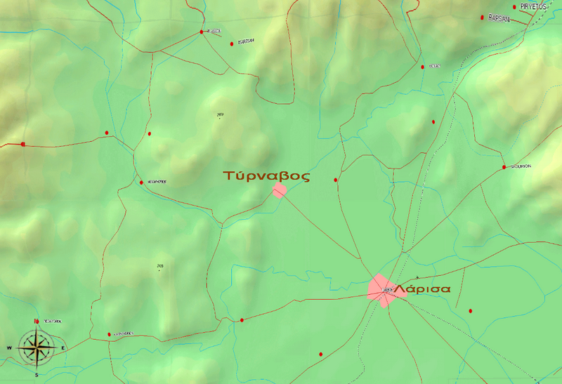 Locator map of Tyrnavos, Larissa, Greece